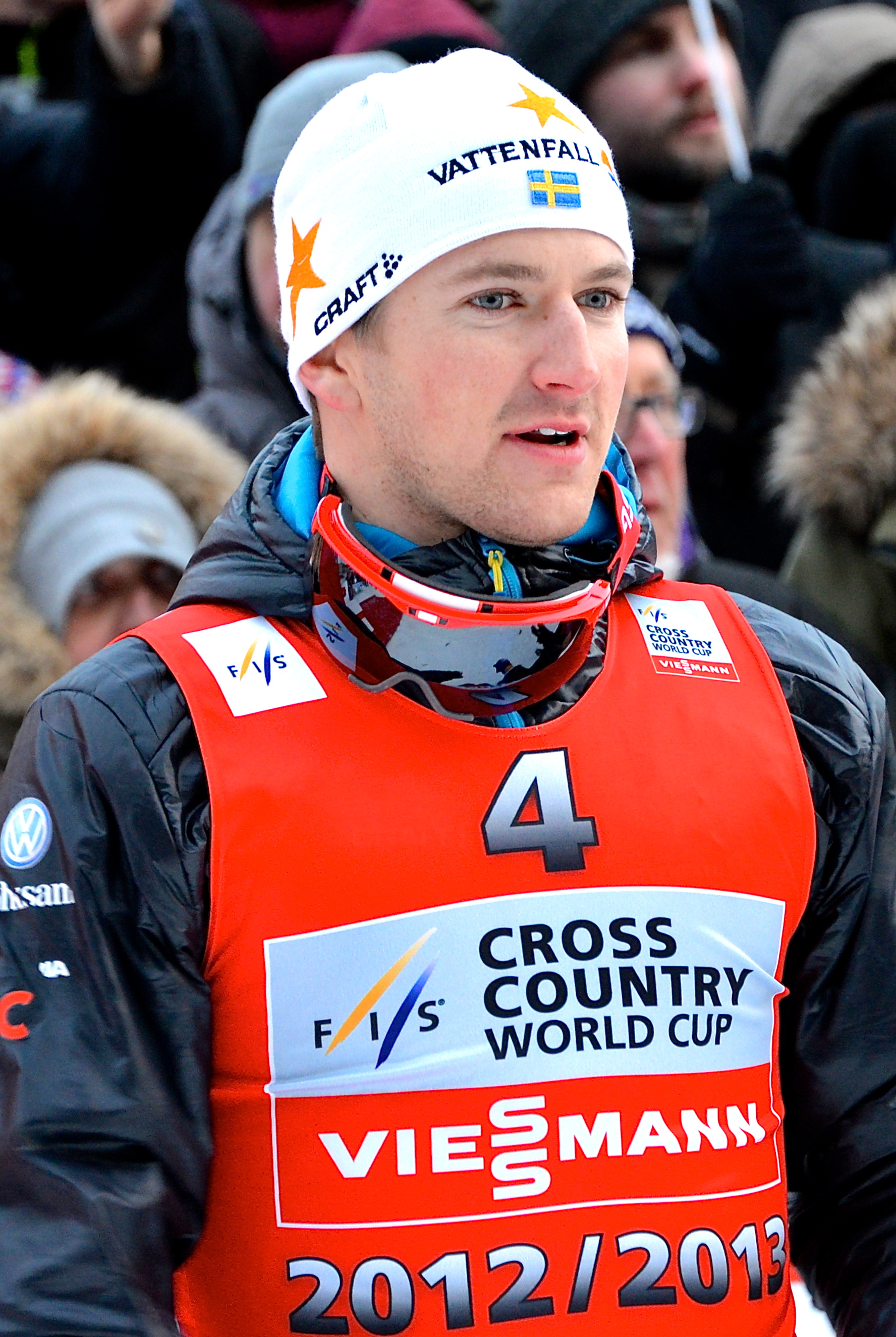 Teodor Peterson at the Royal Palace Sprint, part of the FIS World Cup 2012/2013, in Stockholm on March 20, 2013.